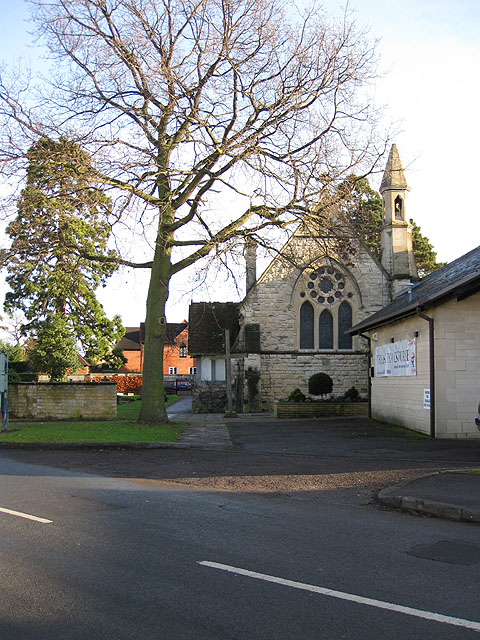 SS Philip and James' parish church, Cold Pool Lane, Up Hatherley, Gloucestershire, seen from the west